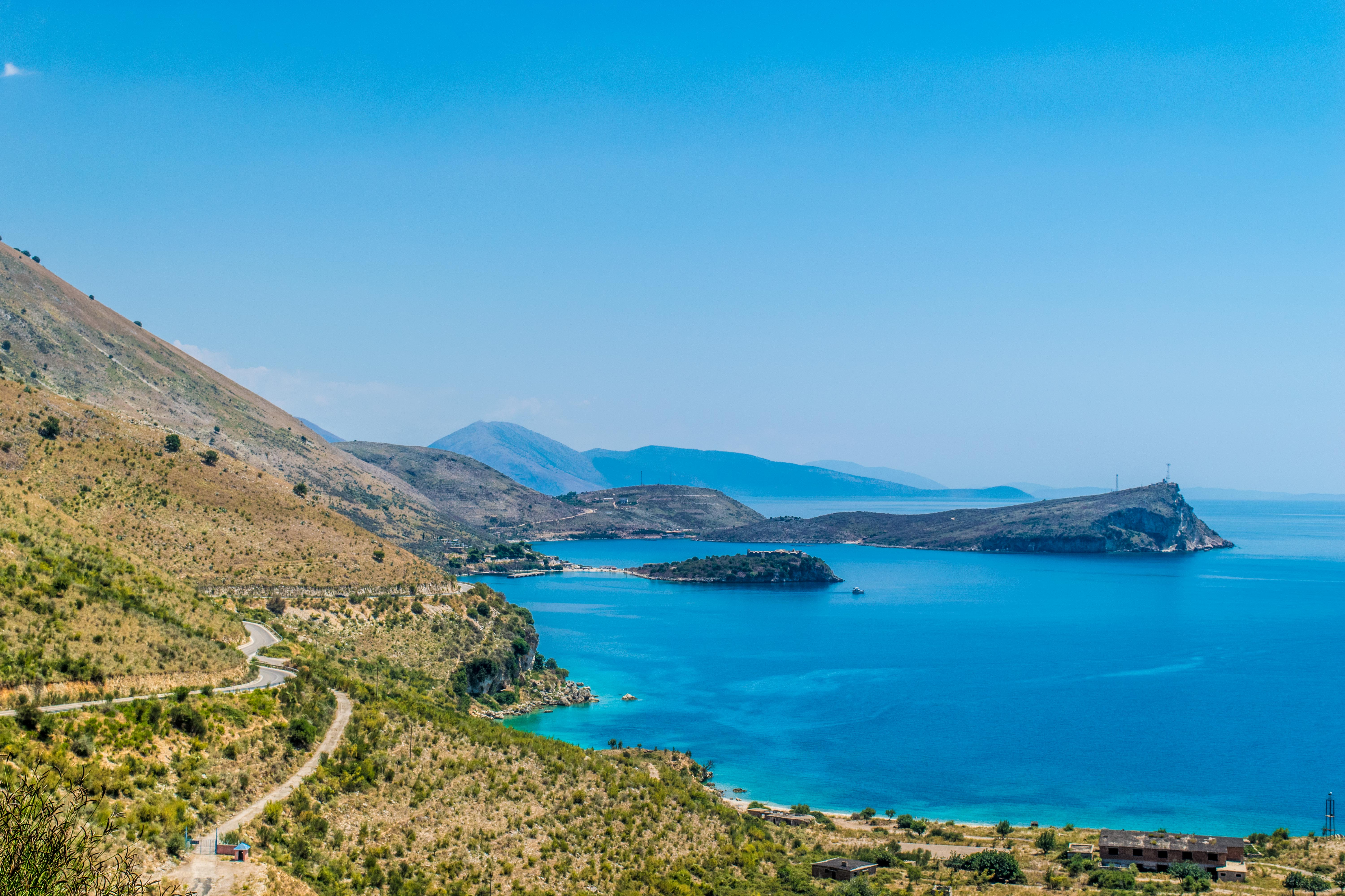 Porto Palermo, Albanian Riviera 2016